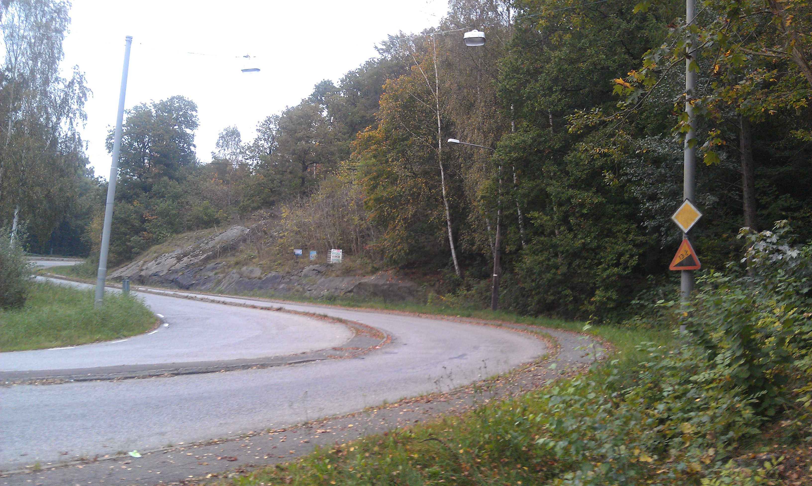 Tideräkningsgatan, Göteborg, Sweden